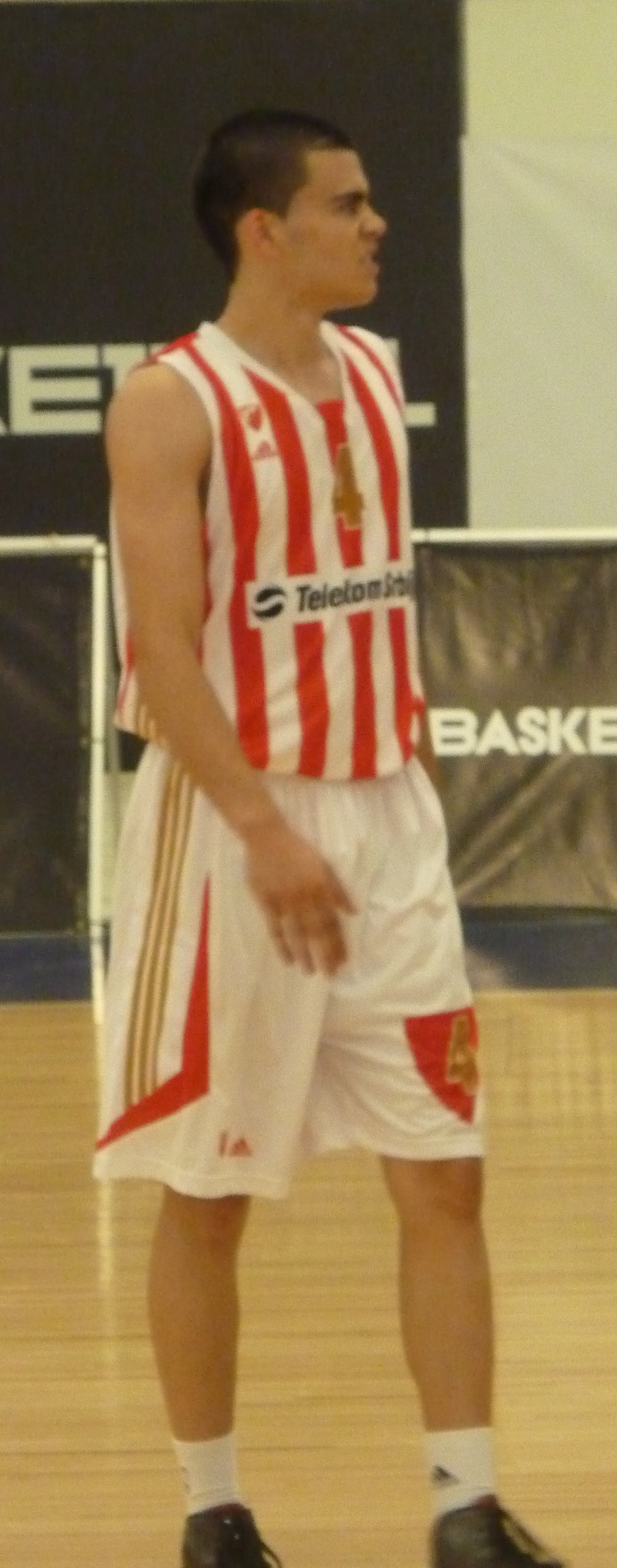 Serbian basketball player Nikola Rebić playing for Crvena Zveda Beograd at the Nike International Junior Tournament Finals in London (9-12 May 2013).